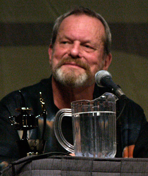 Terry Gilliam talks about his film, The Imaginarium of Doctor Parnassus, at San Diego Comic-Con.